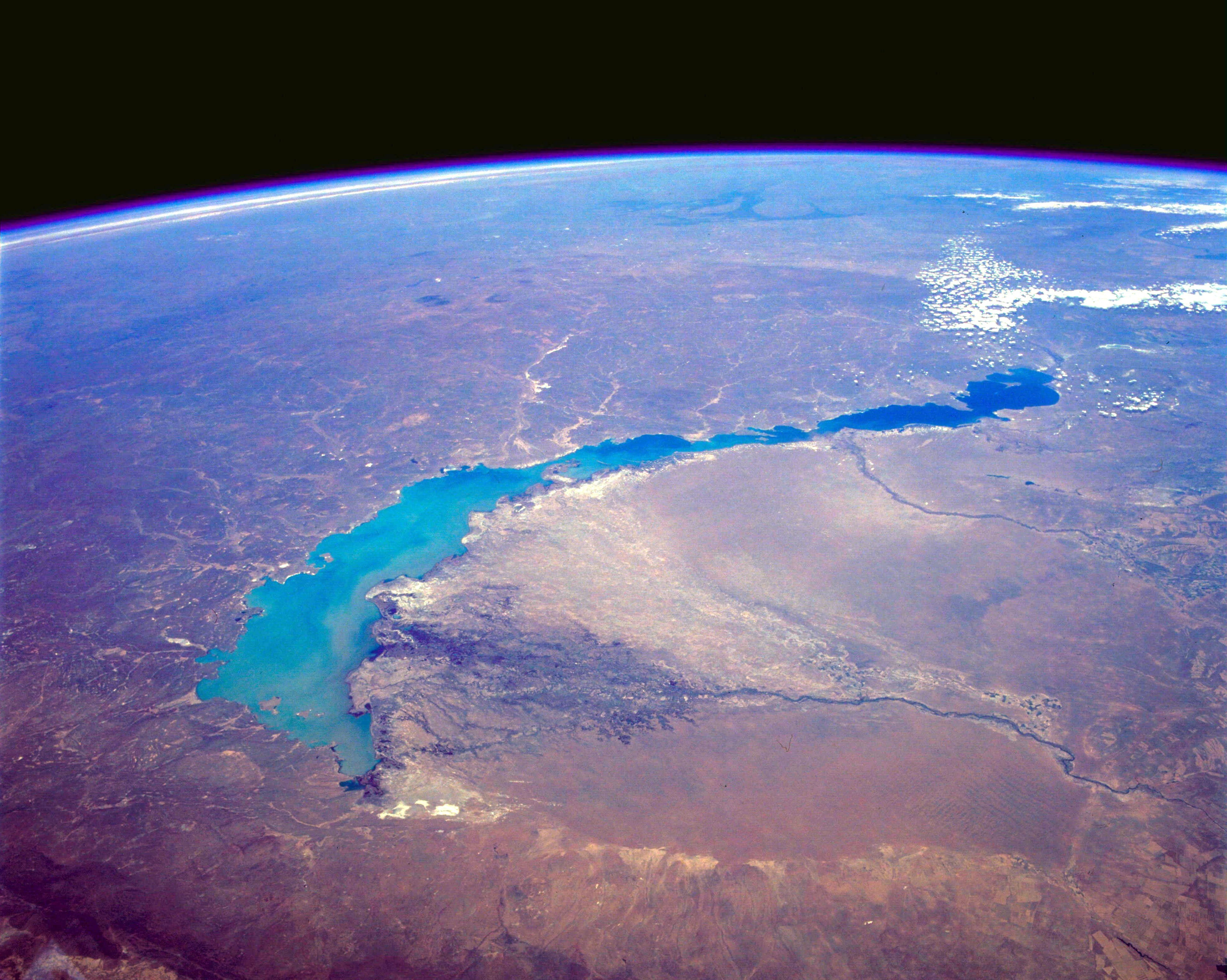 STS039-085-00E Lake Balkhash, Kazakhstan April 1991 The turquoise waters of Lake Balkhash can be seen in this northeast-looking, high-oblique photograph. The lake covers 6560 square miles (17 000 square kilometers), is nearly 350 miles (565 kilometers) long, but is only 45 miles (72 kilometers) at its maximum width. The average depth of Lake Balkhash is 20 feet (6 meters), but the lake reaches a maximum depth of 85 feet (26 meters) in its western half. Lake Balkhash extends from the Betpak Steppe in the west to the Kazakh Hills in the northeast. Visible in the photograph to the north of the lake is a vast undulating plain, and south-southeast of the lake are the Ili River and its delta. The Ili River separates two deserts. The larger, sandy Sary-Ishikotrau Desert lies northeast of the Ili River. A much smaller river, the Karatal, traverses this desert and empties into the eastern portion of Lake Balkhash. The Taukum Desert (brownish color) can be seen southwest of the Ili River. A large sandbar or spit (center of the photograph) separates the eastern, shallower, more saline part of Lake Balkhash from the deeper, fresher water of the western portion of the lake. The Ili River is fed by melting snow and glaciers of the Tien Shan ranges in China south of the lake (not visible in the photograph). Lake Balkhash has no river outlet and, even with the influx of fresh water from the Ili River, is shrinking because of evaporation; however, its rate of shrinkage is much less than that of the Aral Sea, which juts into Kazakhstan much farther to the west.